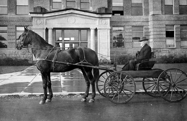 James Withycombe (March 21, 1854–March 3, 1919) in front of Ag building on the Oregon State University Campus.